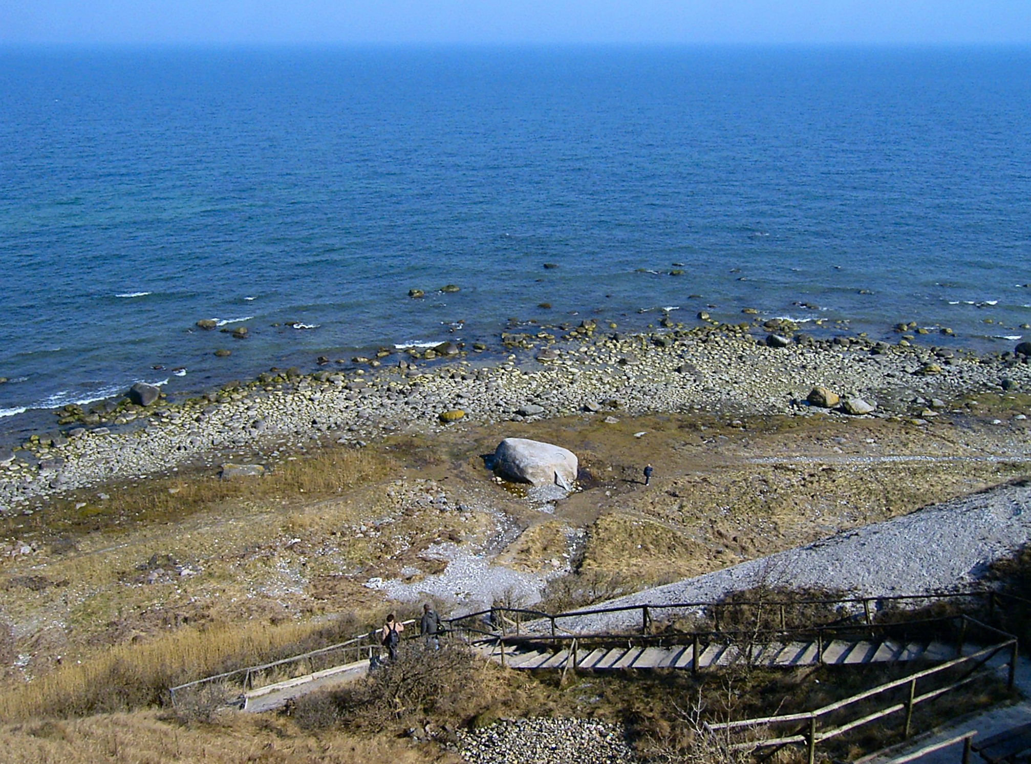 Gellort, the northpoint of island Rügen with Siebenschneiderstein (Seventailorstone)